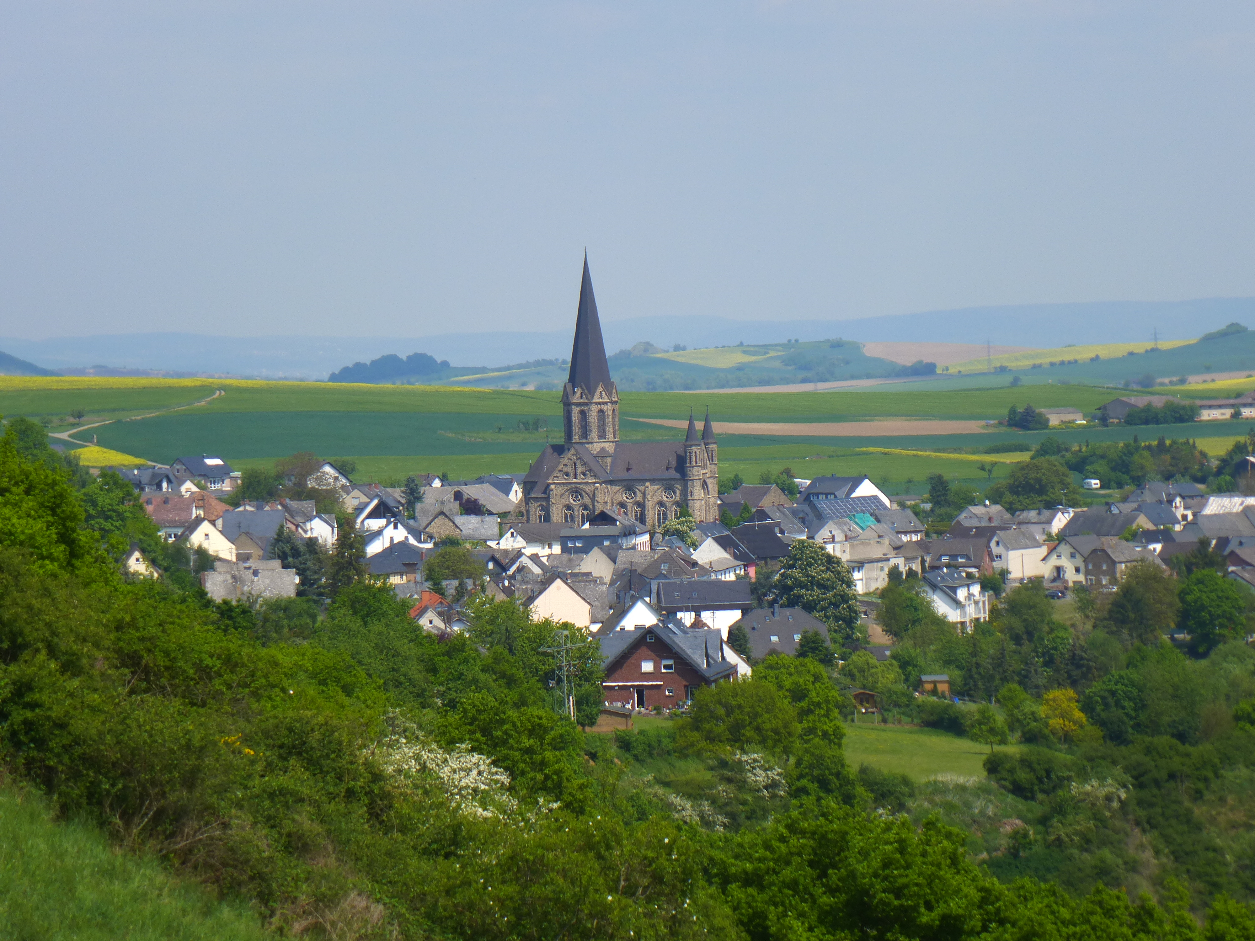 Welling (Germany, Rhineland-Palatinate, Mayen-Koblenz), view from southsouthwest